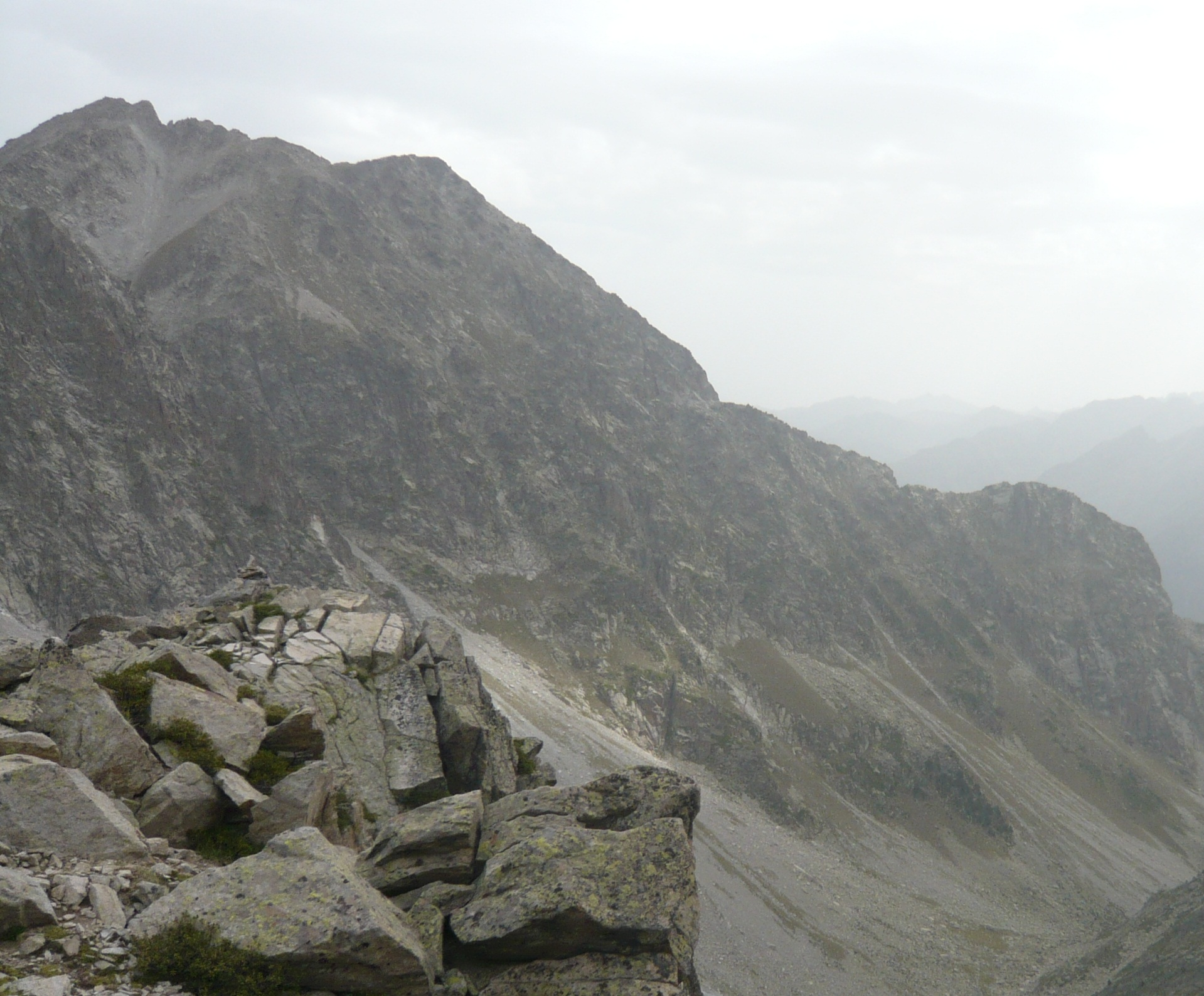 crête de Bastampe et pic de Barbe de Bouc